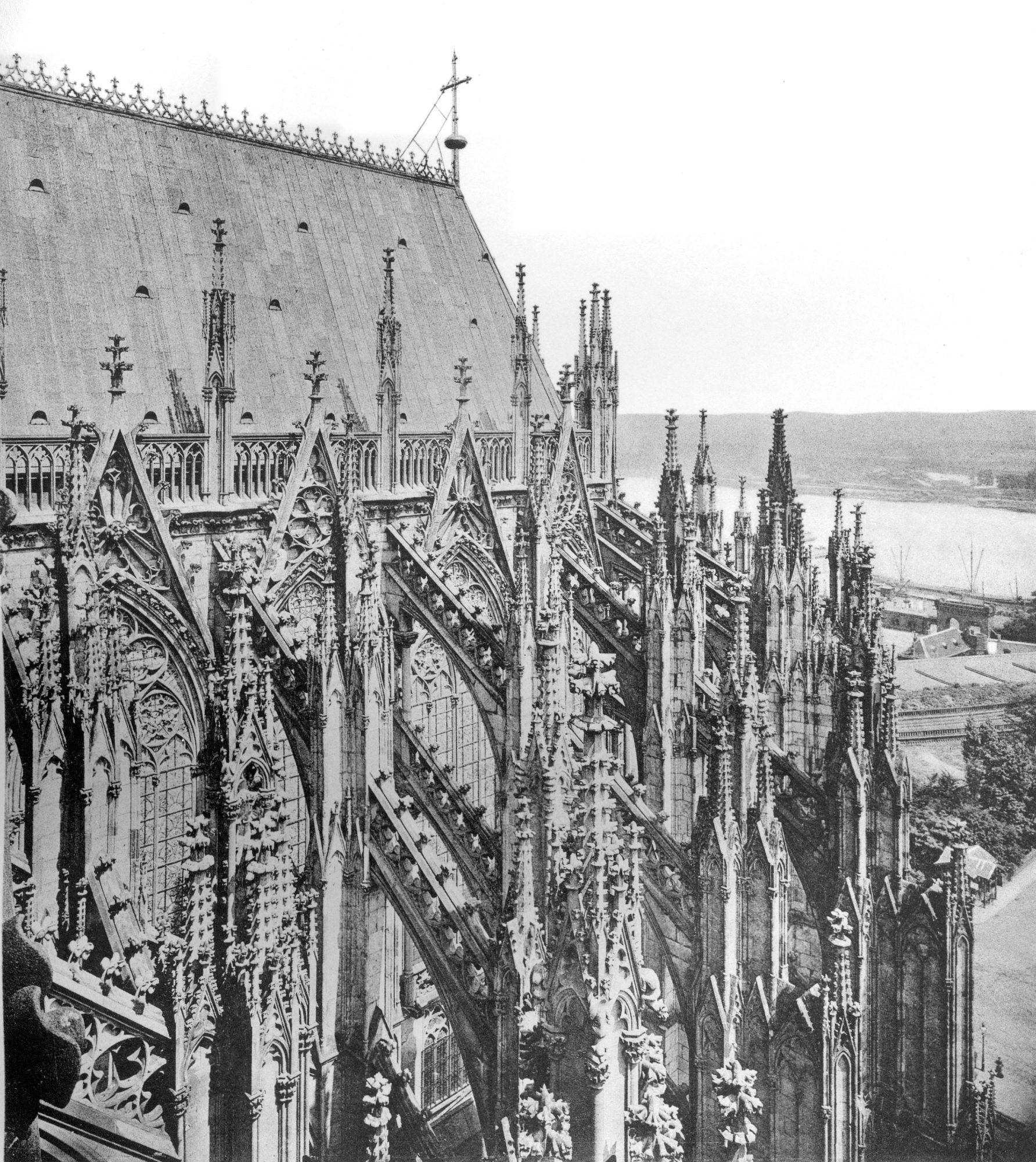 This is a scan of the historical document